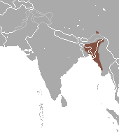 Western Hoolock Gibbon (Hoolock hoolock) range